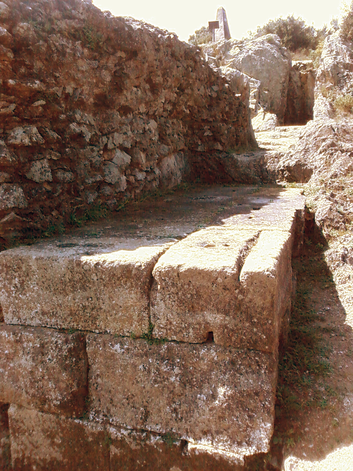 panissars roman ruins